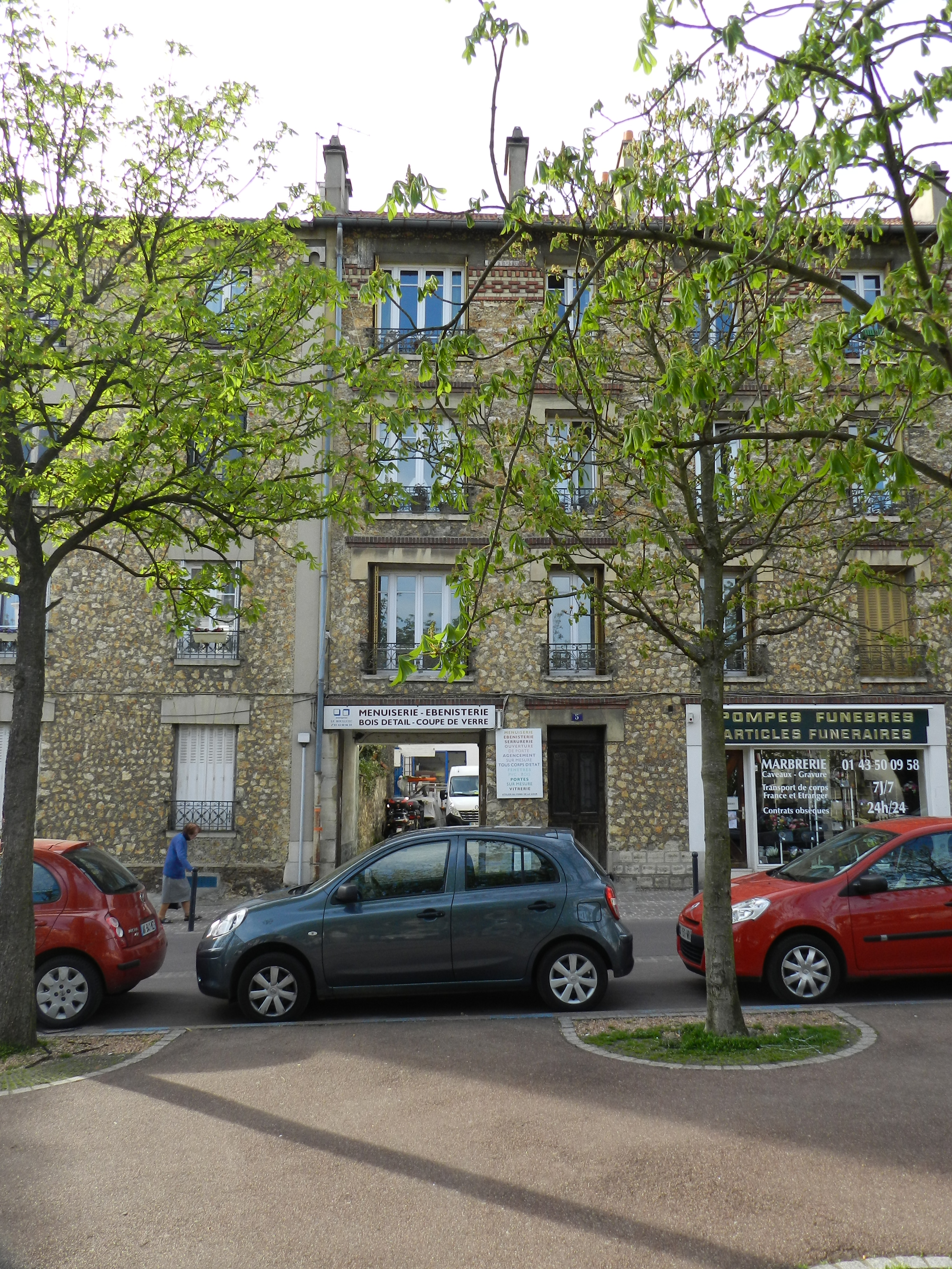 Un immeuble de la place Charles-de-Gaulle à Fontenay-aux-Roses.